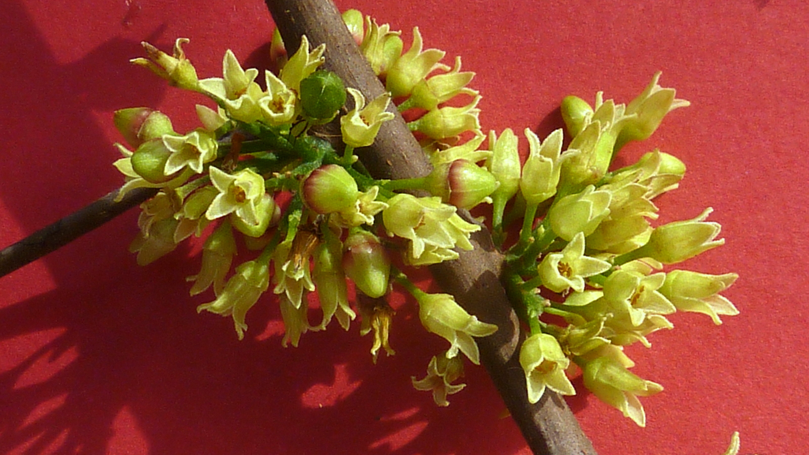 Protium heptaphyllum (Aubl.) Marchand ssp. heptaphyllum